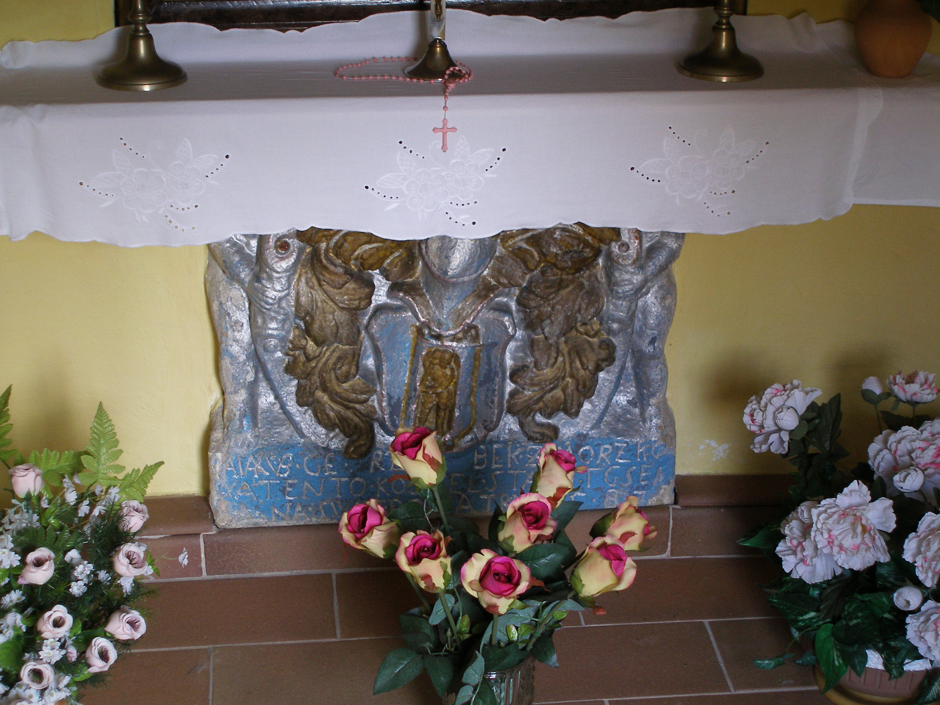 Jeřábek's coat of arms in Mořkov's chapel.